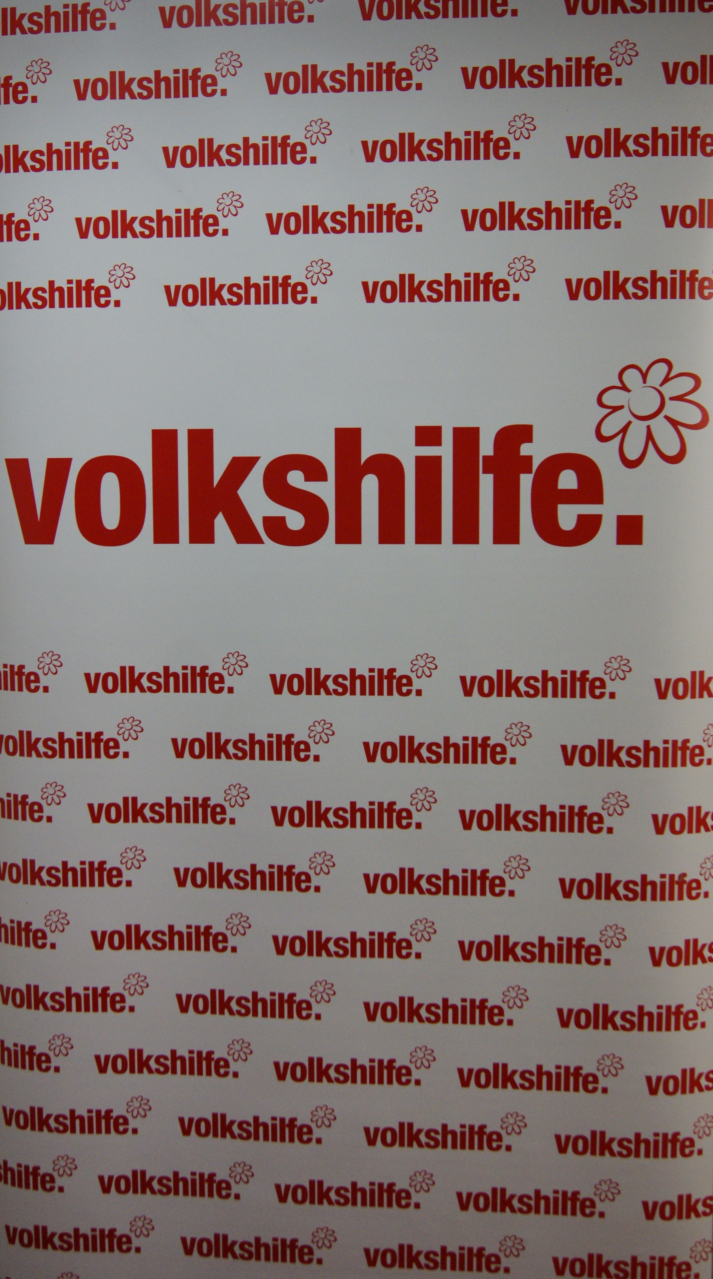 Roll Up with the logo of Volkshilfe Austria on the occasion of the federal state Conference / General Assembly in Bregenz 2015th